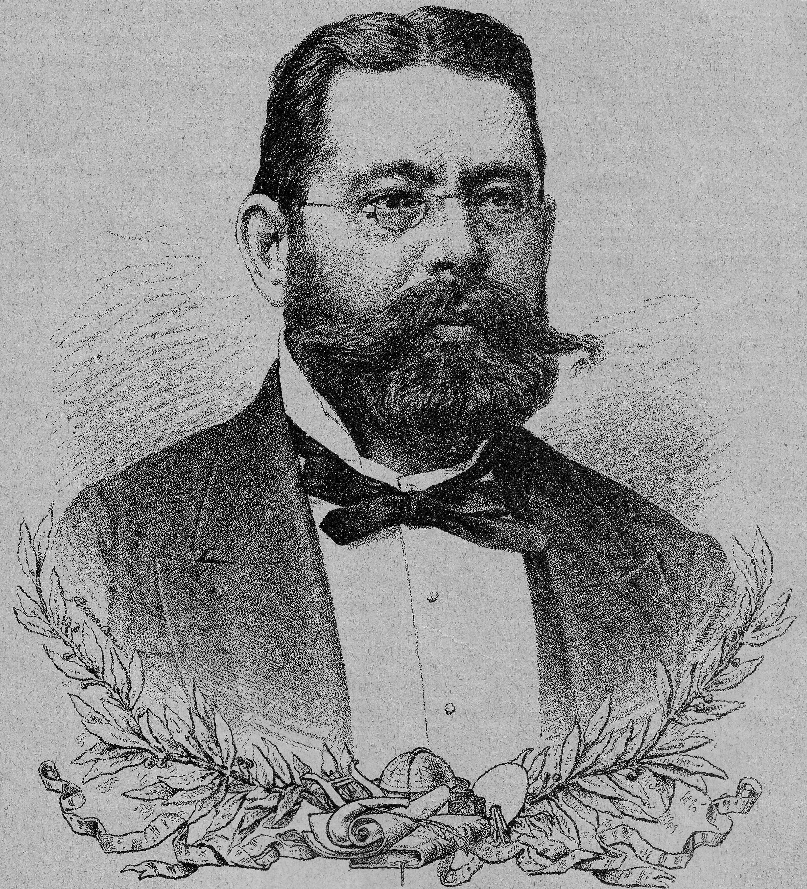 Ljubomir Vujnović (1841-1883), Serbian priest, professor and benefactor. Taken from the 1884 edition of the calendar Orao Srpski (latinica): Ljubomir Vujnović (1841-1883), srpski sveštenik, profesor i dobrotvor. Preuzeto iz izdanja kalendara Orao za 1884. godinu.